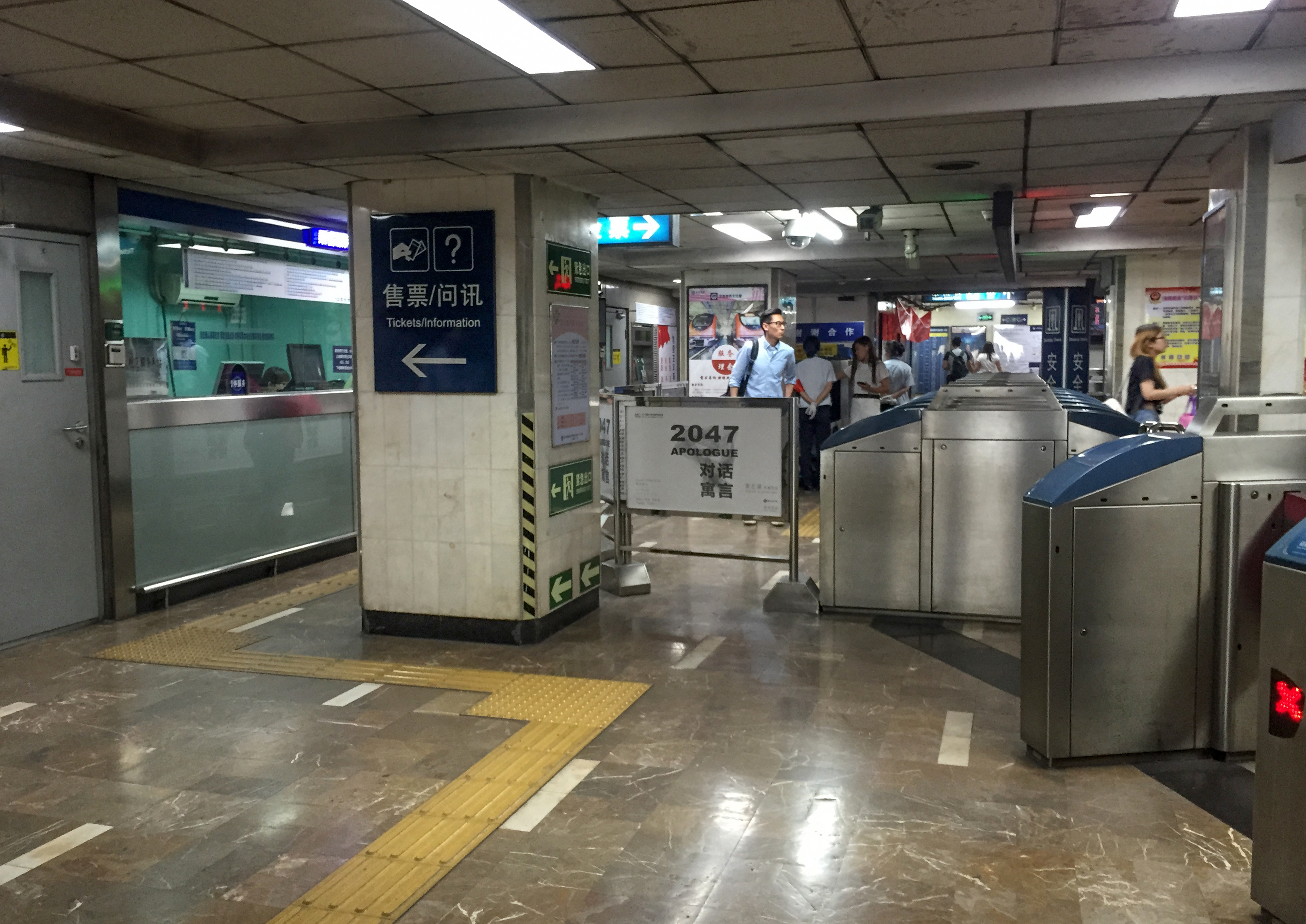 Split concourse as other Phase I stations.